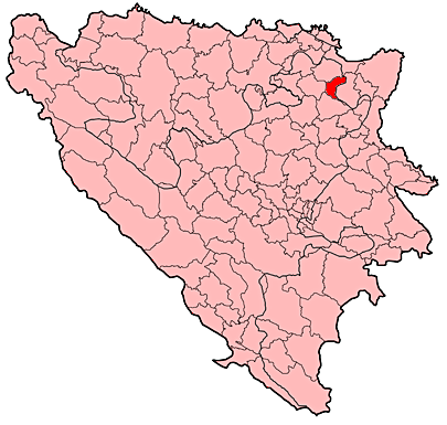 Location of Čelić municipality in Bosnia and Herzegovina.